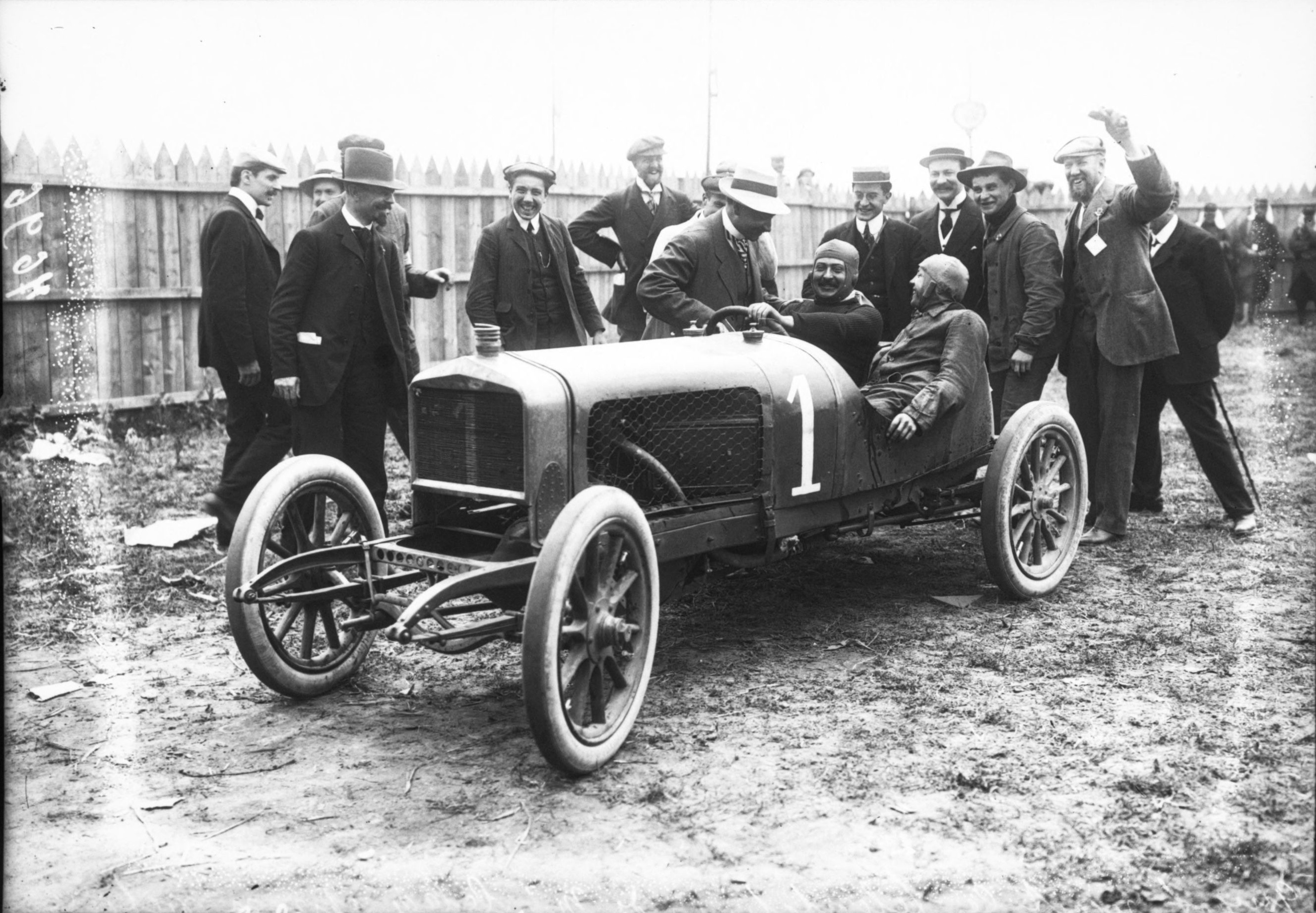 Albert Guyot in his Delage Type ZC at the 1908 Grand Prix des Voiturettes at Dieppe.